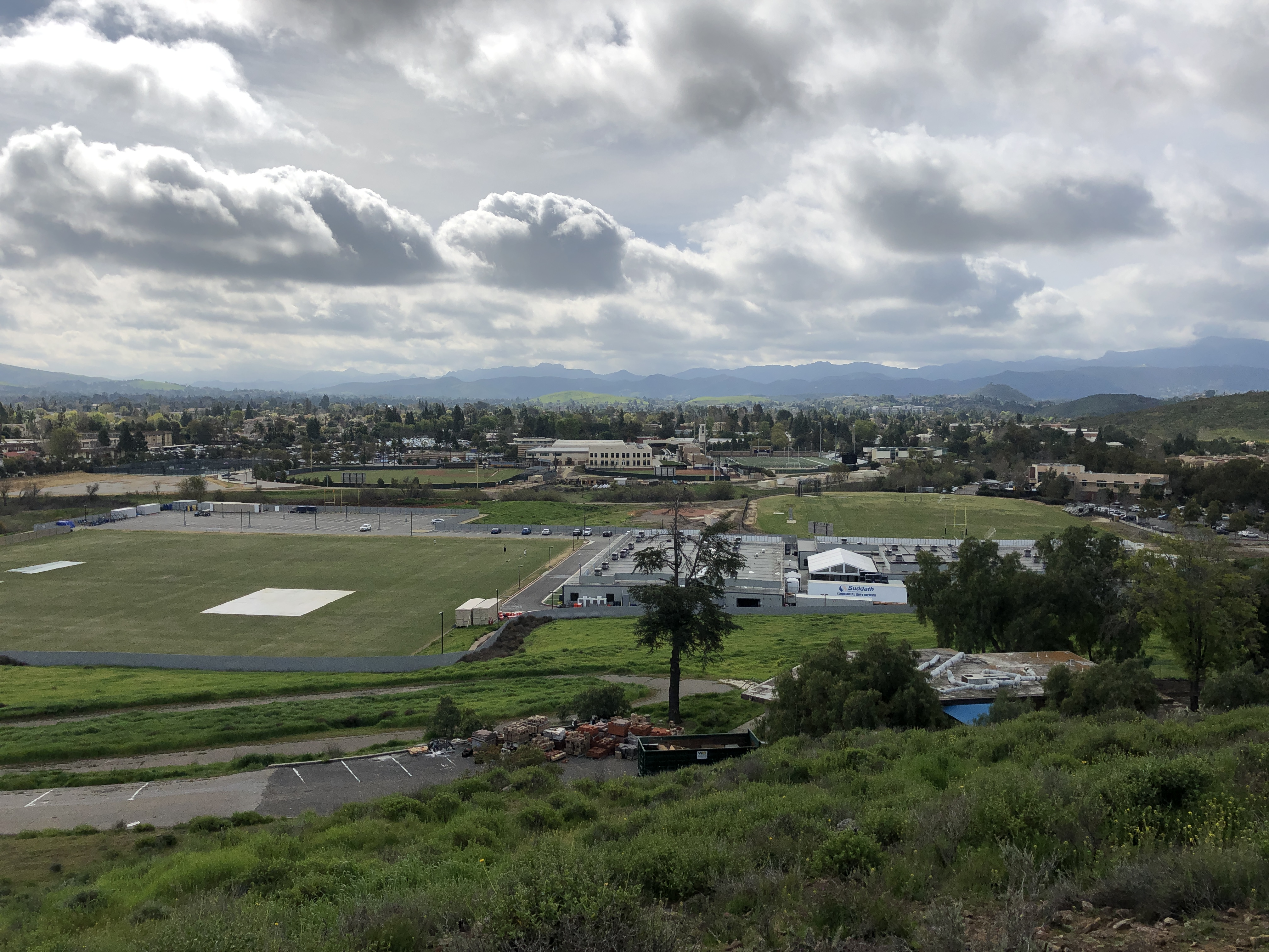 Athletics facilities at California Lutheran University as seen from Mount Clef Ridge.